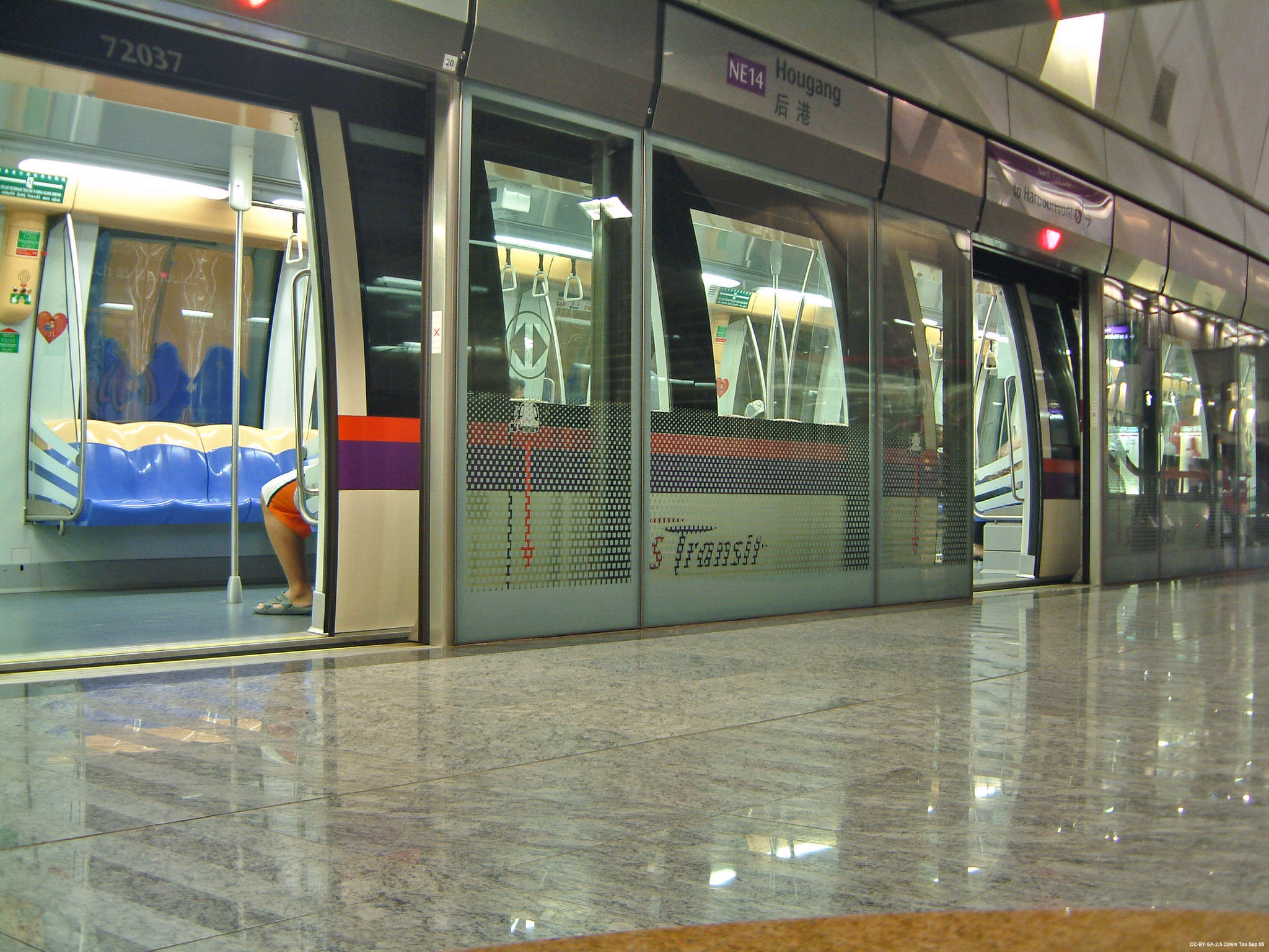 Alstom Metropolis at NE14 Hougang Station platform along the NorthEast Line in Singapore. Taken by me, Calvin Teo September 2005